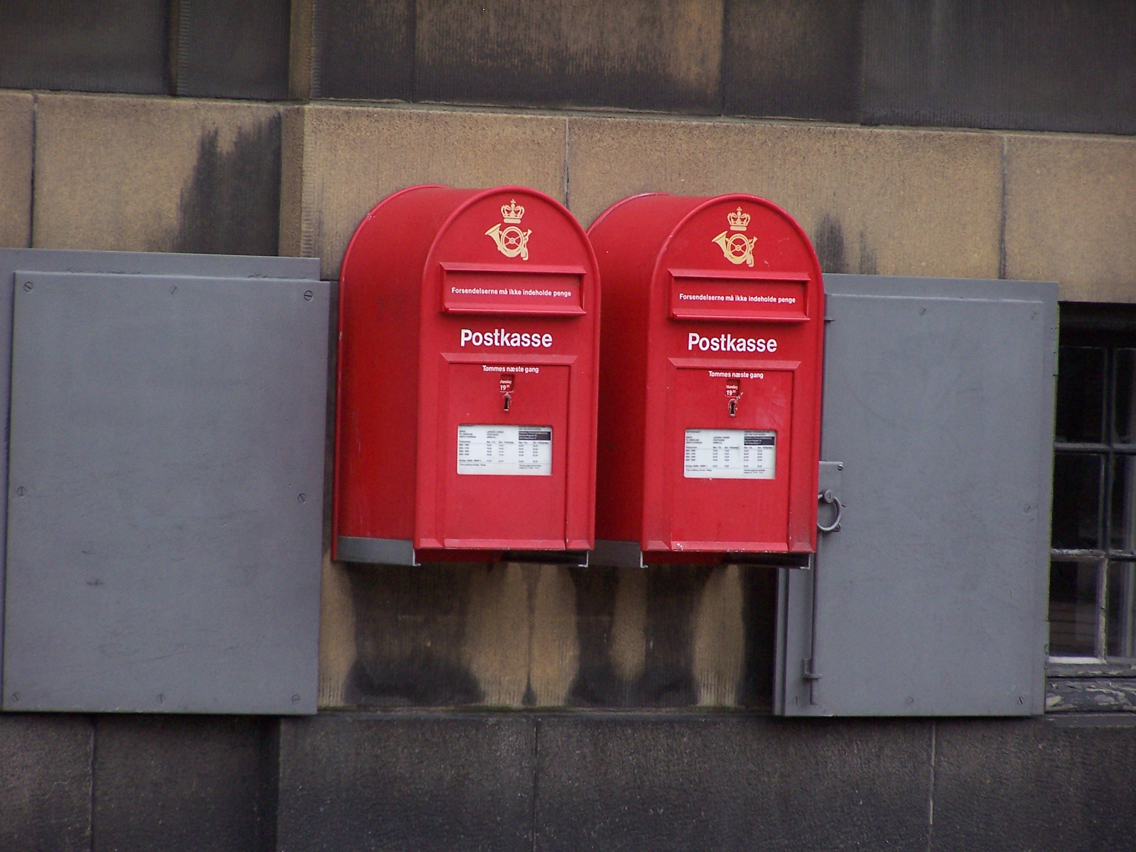 Two Danish letterboxes/mailboxes mounted on the wall of the Royal Danish Academy of Music in Copenhagen, see File:Det Konglige Danske Musikkonservatorium.jpg.